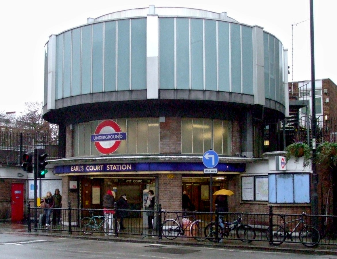 Earl's Court tube station western entrance, opposite the exhibition centre of the same name